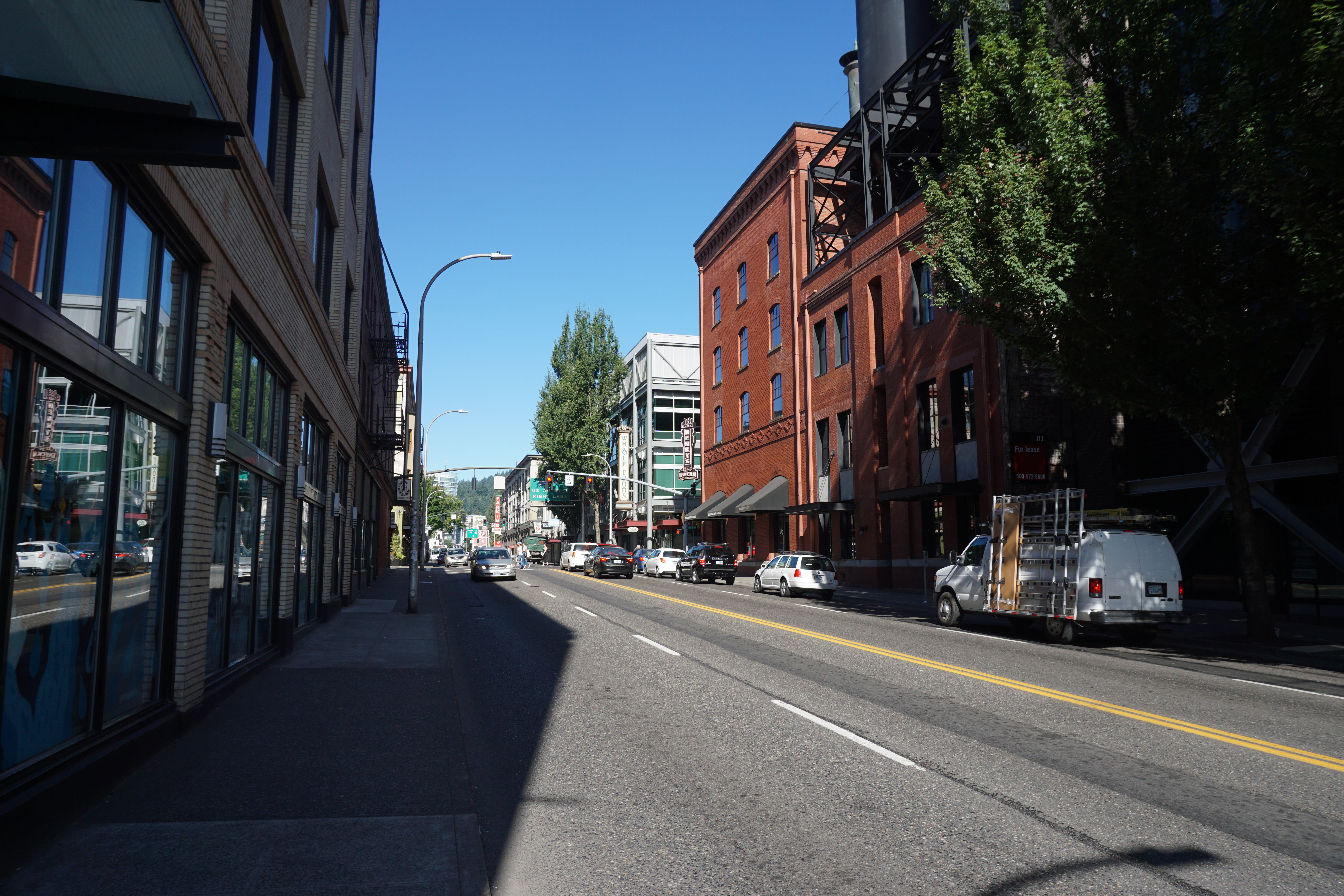 West Burnside Street in Portland, Oregon (United States).